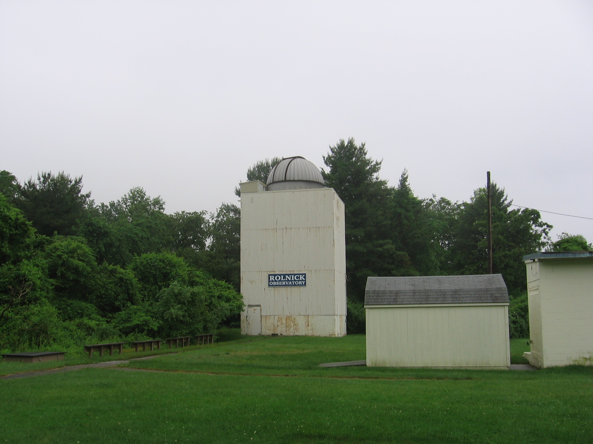 The Rolnick Observatory operated by the Westport Astronomical Society and the Westport School District in Westport, Connecticut, USA. View is looking south-southeast.